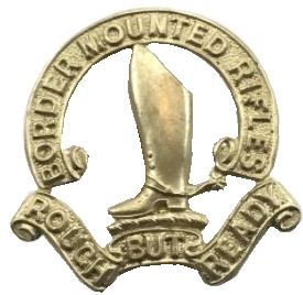 Border Mounted Rifles insignia